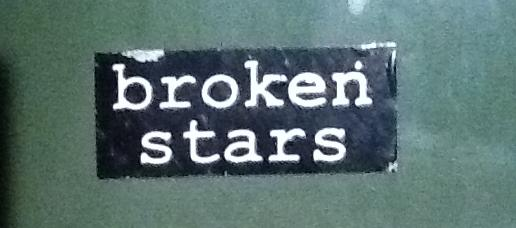 Photo of a sticker of the luxembourgish band Broken Stars on a wall in Luxembourg.